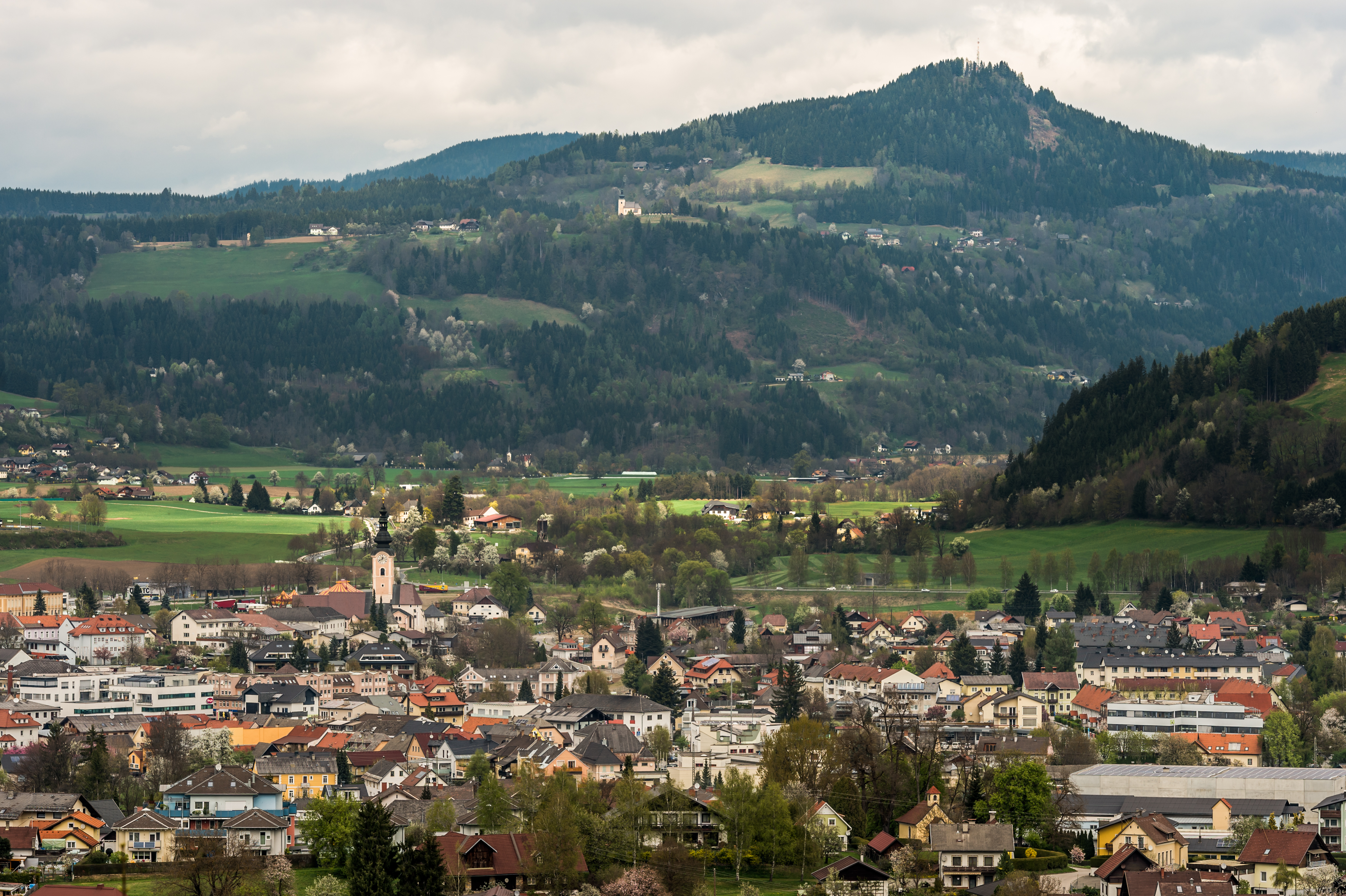 View of Feldkirchen from Rottendorf, municipality Feldkirchen, district Feldkirchen, Carinthia, Austria, EU